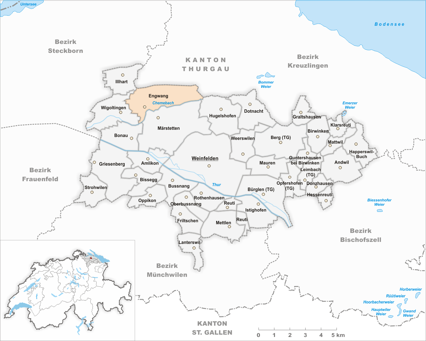 Municipality Engwang